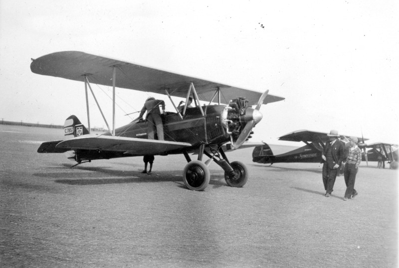 PictionID:46539181 - Catalog:Array - Title:Array - Filename:AL-248E_062 Butler Blackhawk NC7857 Amarillo 9Mar30.tif - Robert Reedy was a native of Amarillo Texas. He attended college in Wichita Kansas, studying aeronautical engineering. On graduation he was quickly snapped up by Stearman Aircraft. During his subsequent career he made stops at Lockheed, Thorp and back to Lockheed where he retired as a vice president of sales. Reedy was involved in the design of several Stearman, Vega and Thorp types, the Lockheed P2V, Little Dipper, Big Dipper, and L-1011.--Please Tag these images so that the information can be permanently stored with the digital file.---Repository: San Diego Air and Space Museum